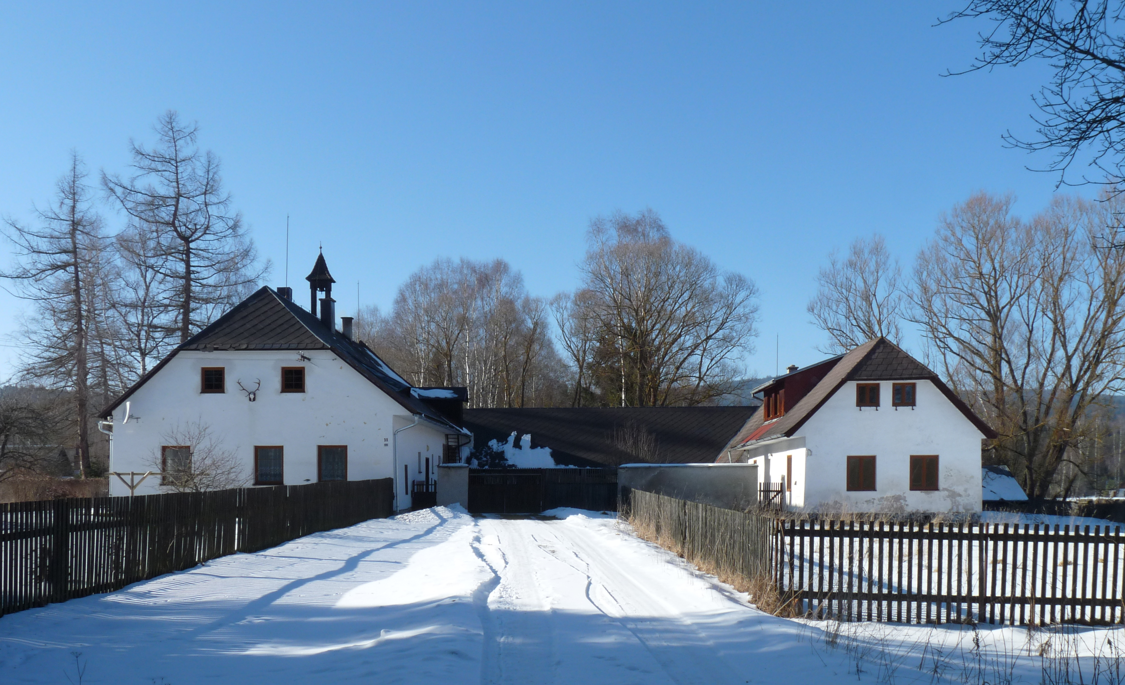 House No 11 in the village of Dlouhý Bor in the municipality of Nová Pec, Prachatice District, South Bohemian Region, Czech Republic.